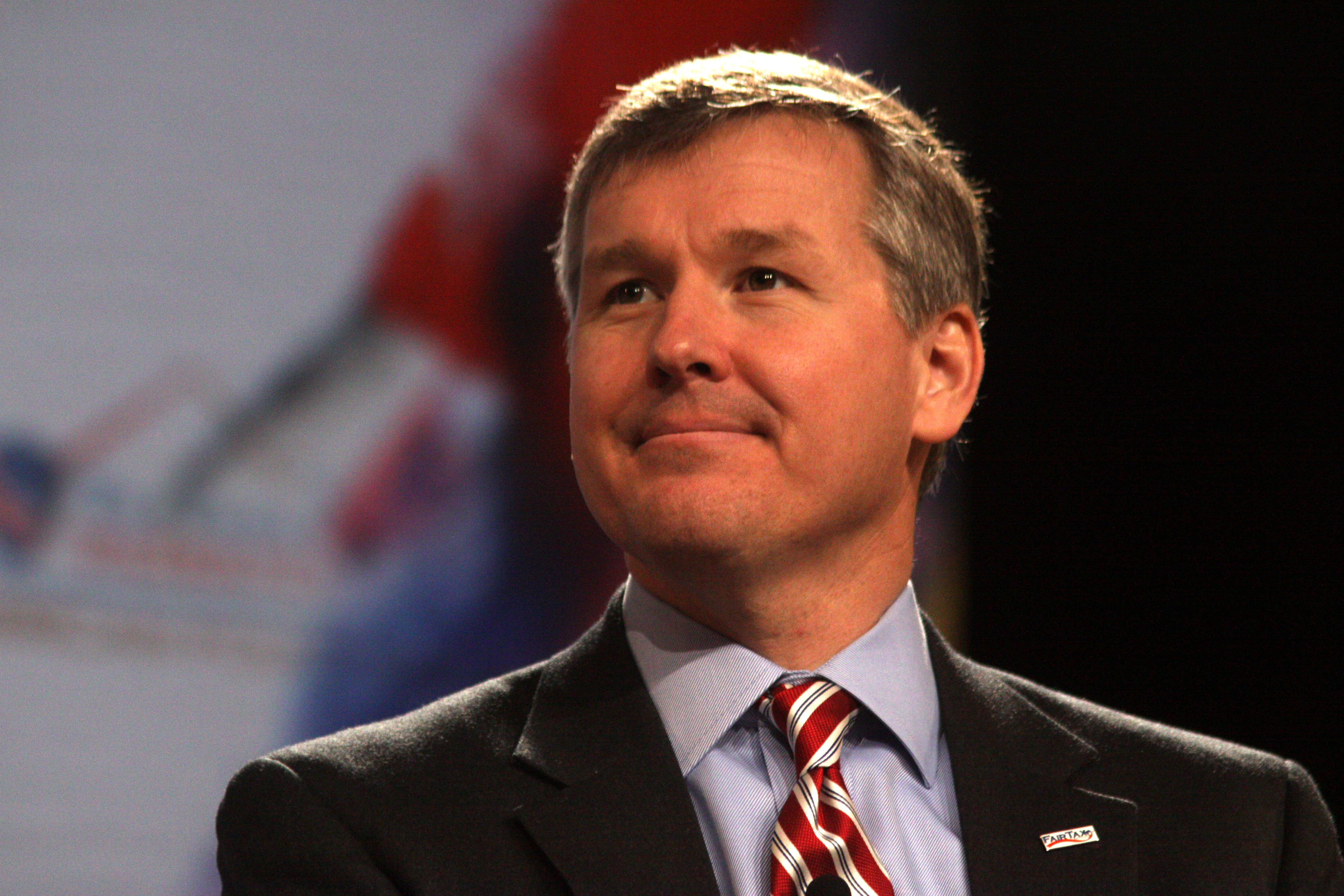 Congressman Rob Woodall of Georgia speaking at the Tea Party Patriots American Policy Summit in Phoenix, Arizona.